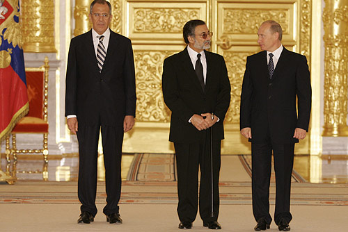 GRAND KREMLIN PALACE, MOSCOW. Ambassador of the Islamic Republic of Afghanistan presents his letter of credentials to the President.